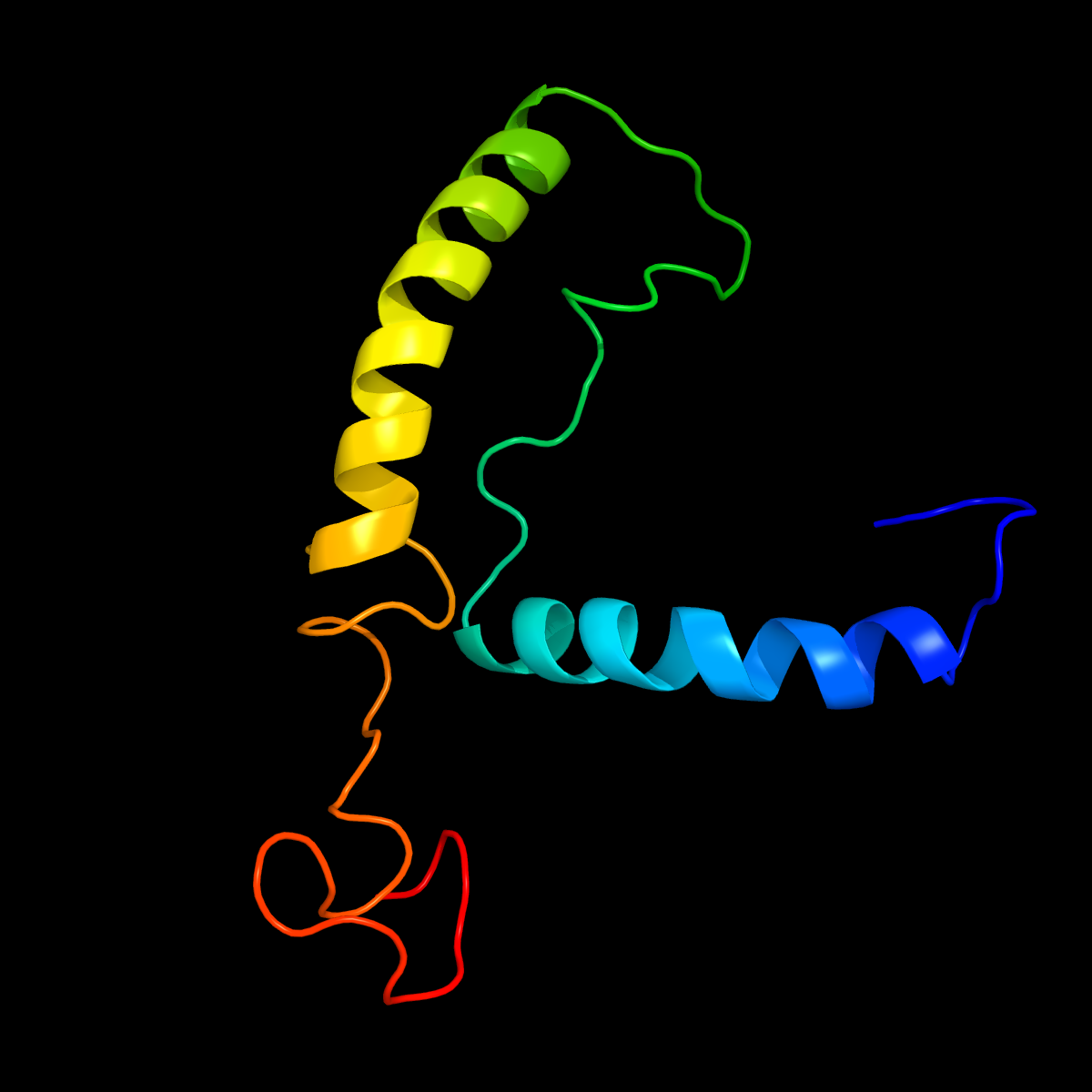 3D rendering of SMIM14